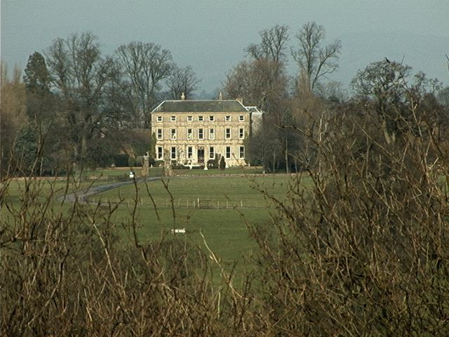 Hazlegrove House, Sparkford, Yeovil